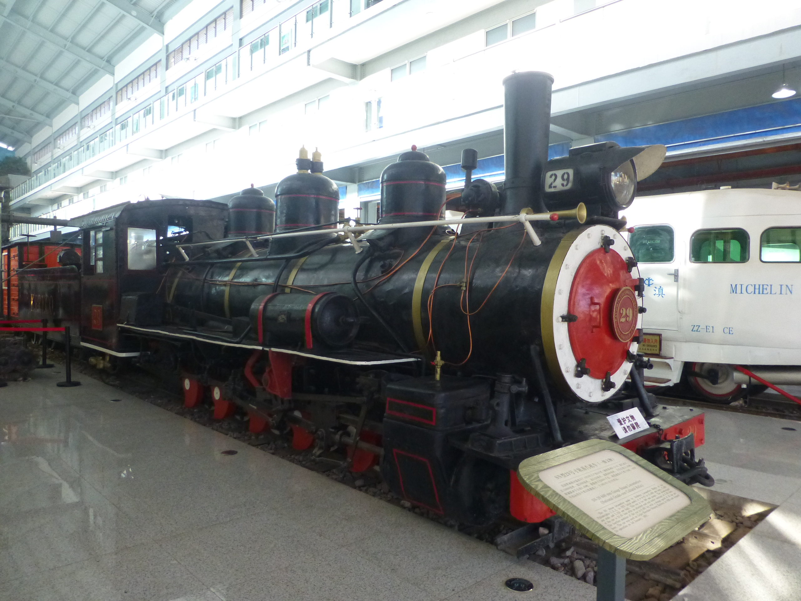 SN-29 steam locomotive, built by Baldwin Locomotive Works in Philadelphia in 1923. It operated on the 600 mm gauge Ge-Bi-Shi railway between 1926-1991. Presenty on display in the Yunnan Railway Museum (Kunming North Railway Station)